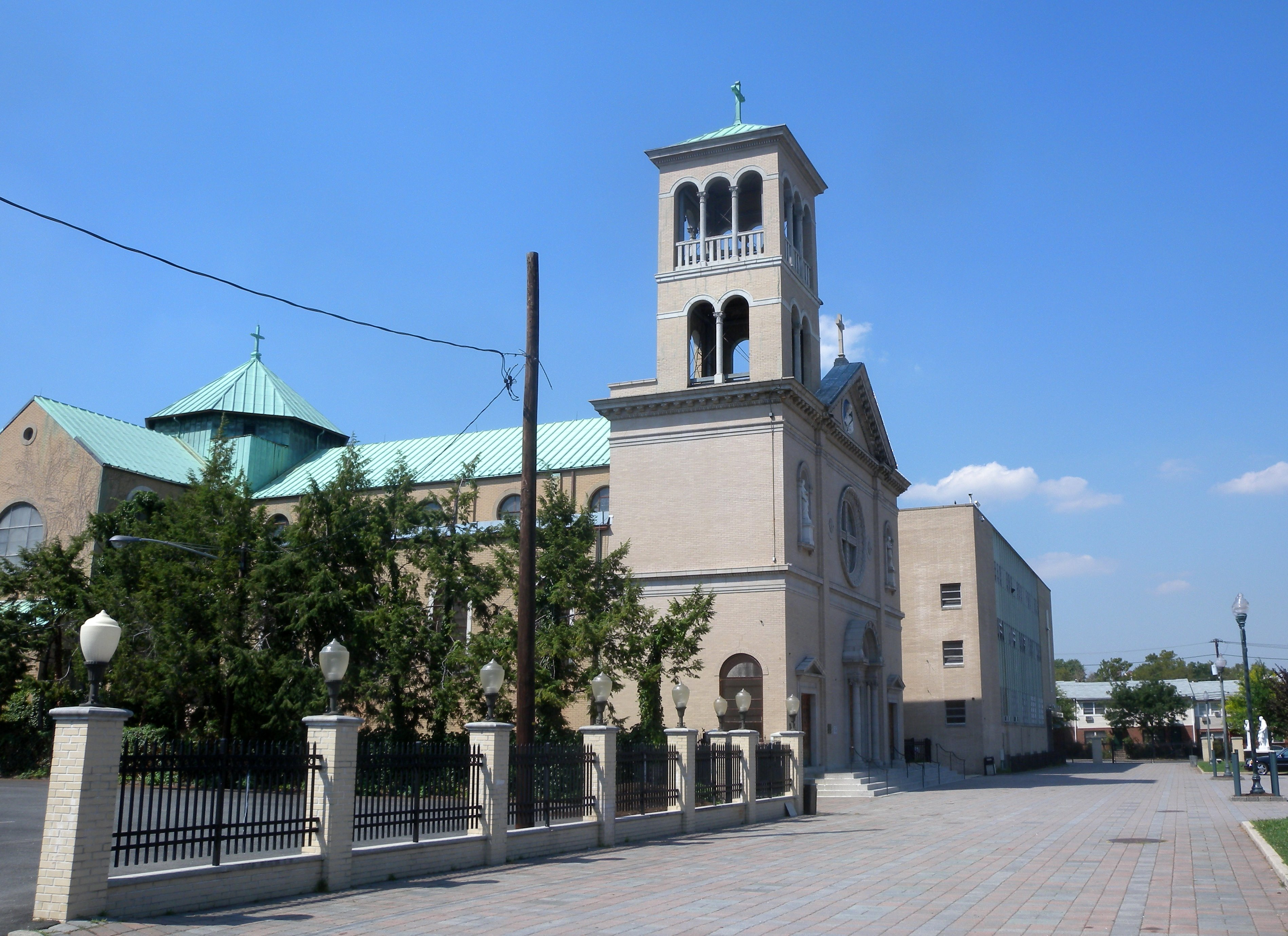 Looking north at St Lucy's on a sunny early afternoon.